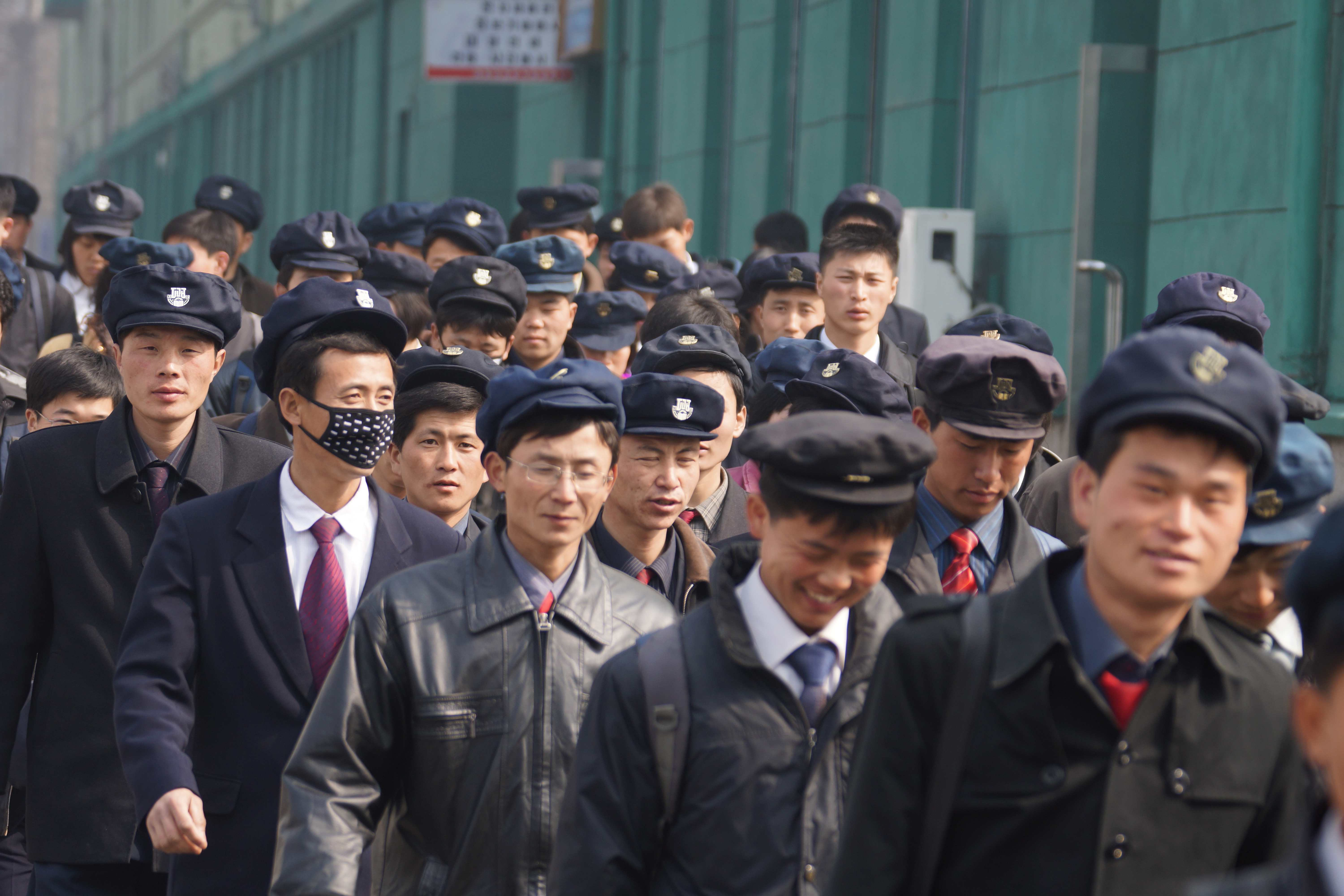 April 2012 trip to DPRK, North Korea for the 100th year birthday celebrations for Kim Il Sung - check out my North Korea blog at